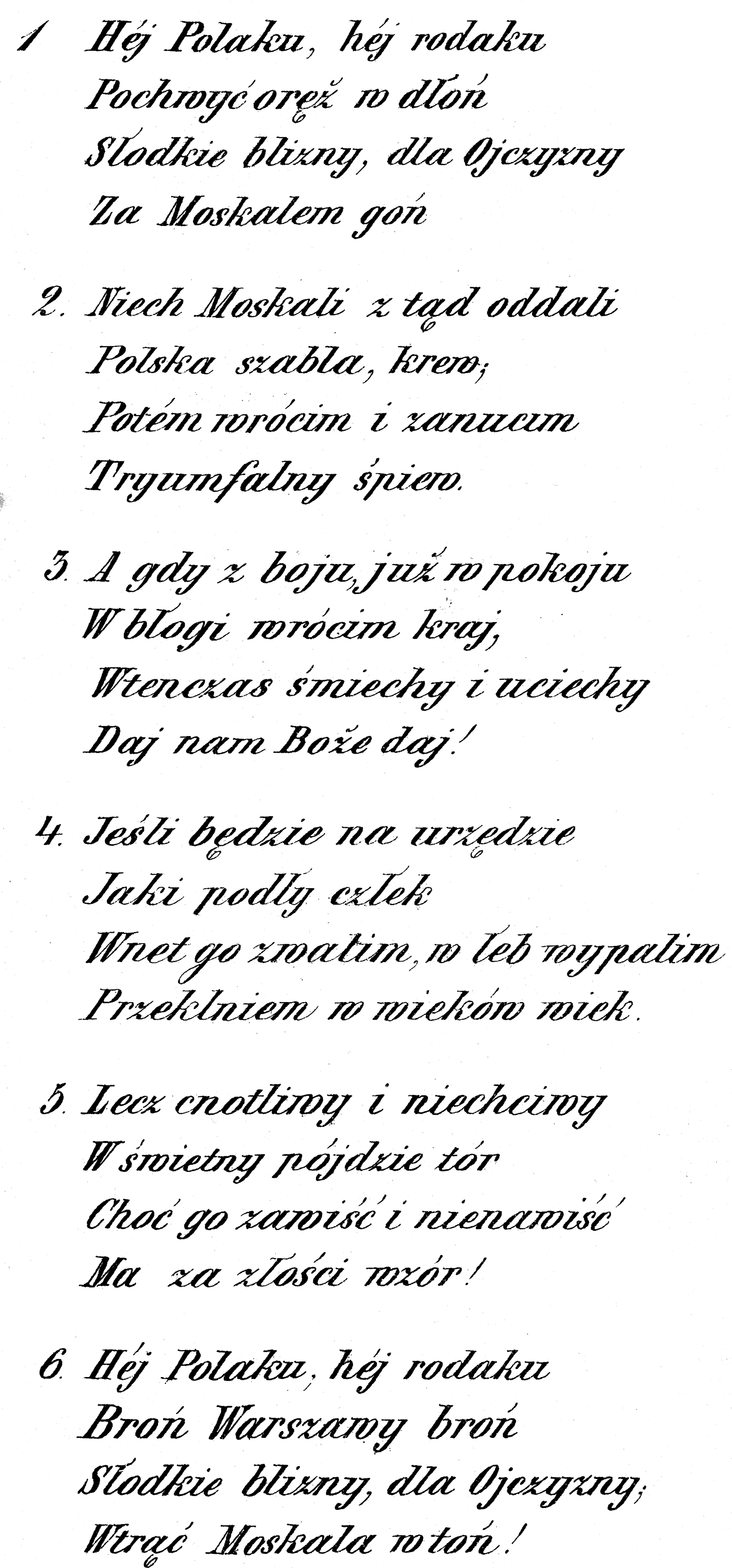 Polish patriotic song, written by Stanisław Hernisz, pupil of Warsaw Rabbinical School, Lieutenent of Polish insurgent troops 1831 Pieśn patriotyczna do muzyki Chopina, napisana przez Stanisława Hernisza, ucznia warszawskiej szkoły rabinów, porucznika wojsk powstańczych 1831